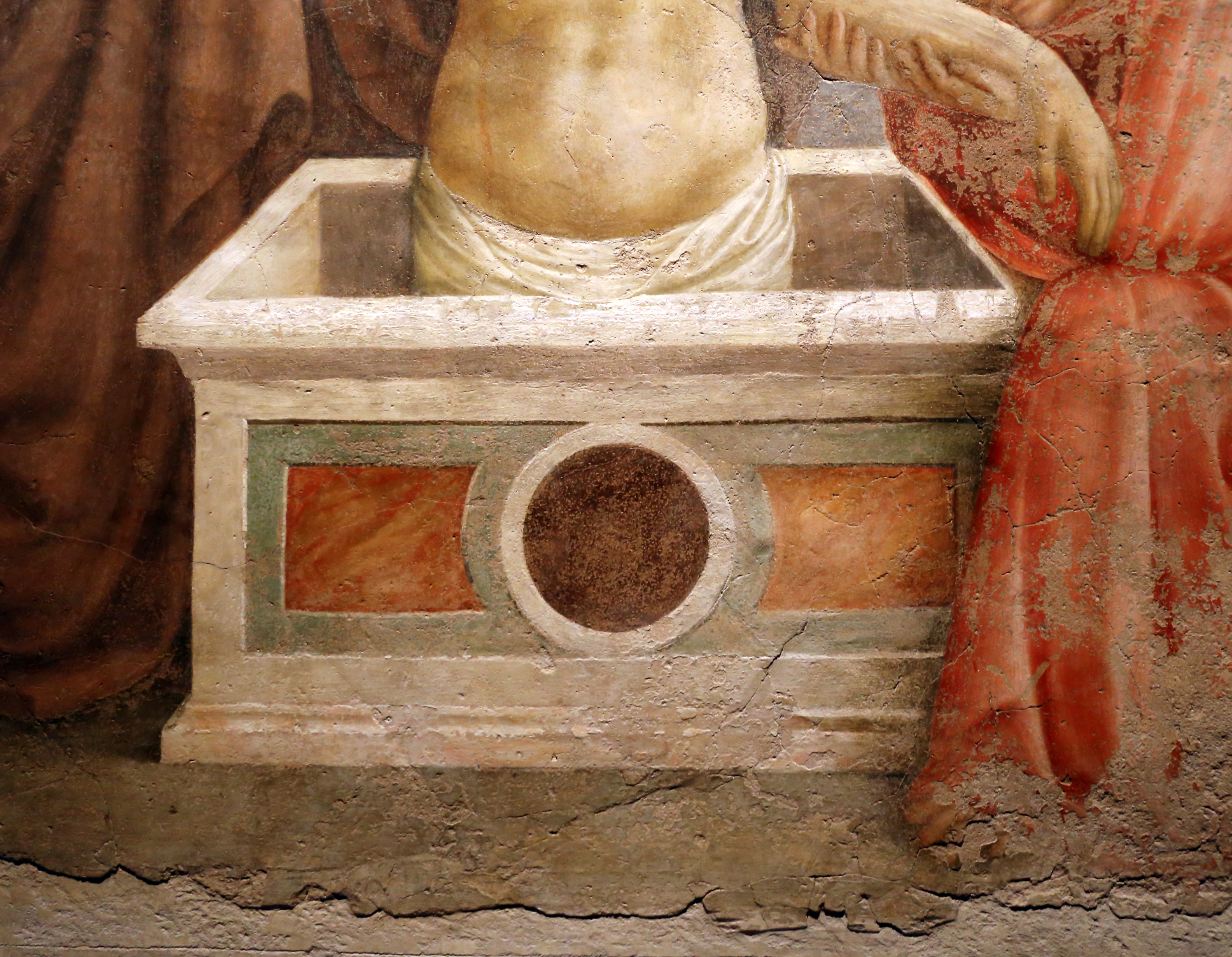 Pietà by Masolino